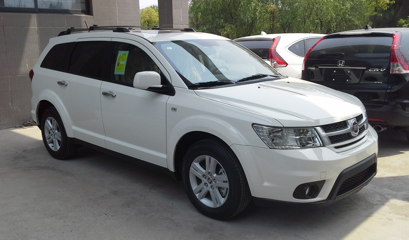 Fiat Freemont photographed in Shanghai, China.